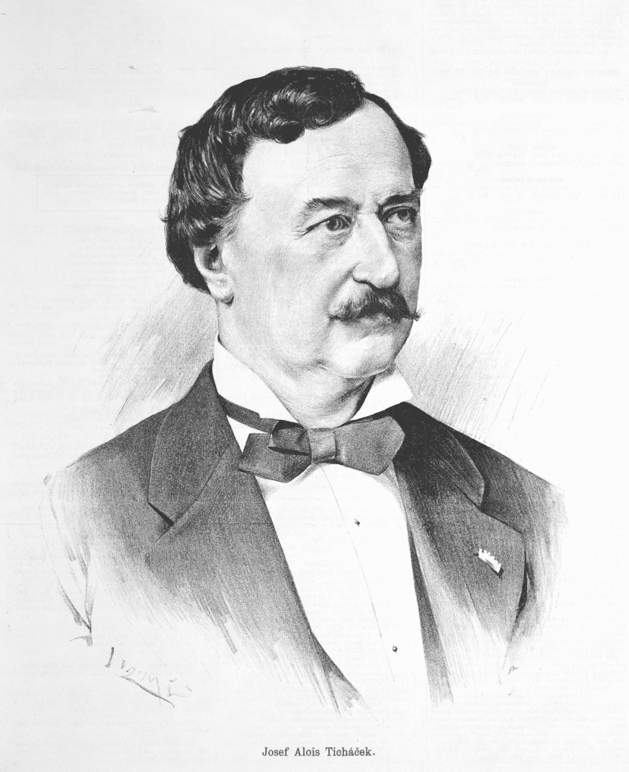 Joseph Tichatschek (Josef Alois Ticháček), singer